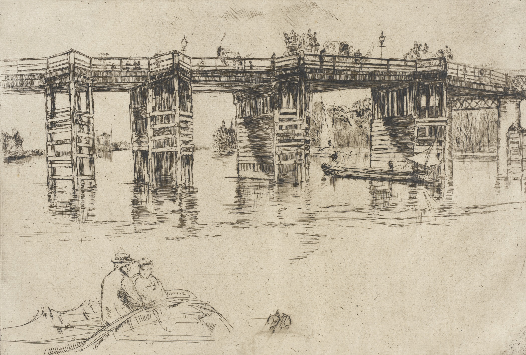 United States, 1879 Prints; etchings Etching and drypoint 7 15/16 x 11 5/8 in. (20.16 x 29.53 cm) Gift of The Julius and Anita Zelman Collection (AC1992.234.9) Prints and Drawings